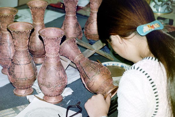 Adding cloisons to patterned base Cloisonne production at an official state production facility. Picture taken late September 2002 by Leonard G. Selectively digitally blurred for jpeg image storage reduction.